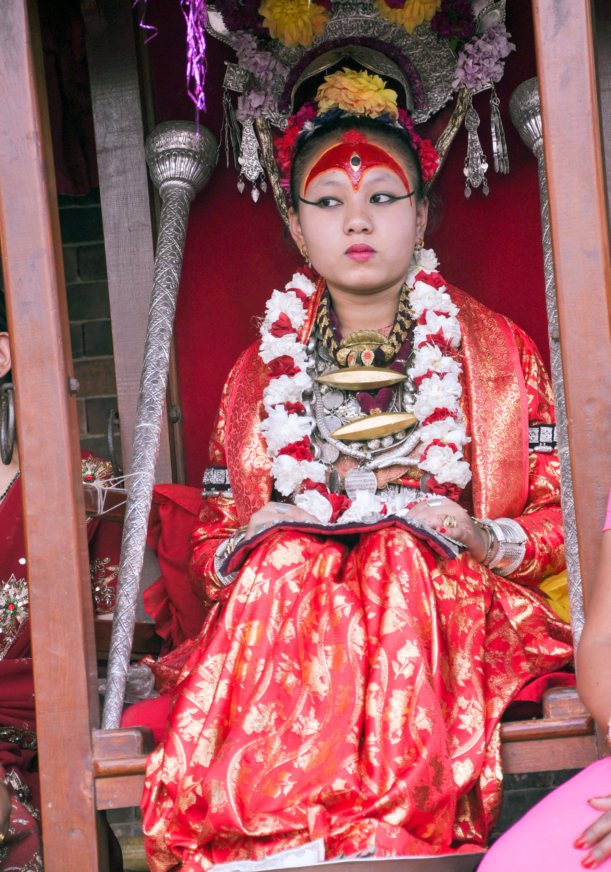 The living goddess Kumari of Nepal. The word Kumari is derived from the Sanskrit Kaumarya नेपाली: नेपालकी जीवित देवी कुमारी । नेपालमा यौवन अवस्था पूर्वका केटीहरूलाई कुमारी वा कुमारी देवीको रूपमा पूजा गर्ने परम्परा रहेको छ।